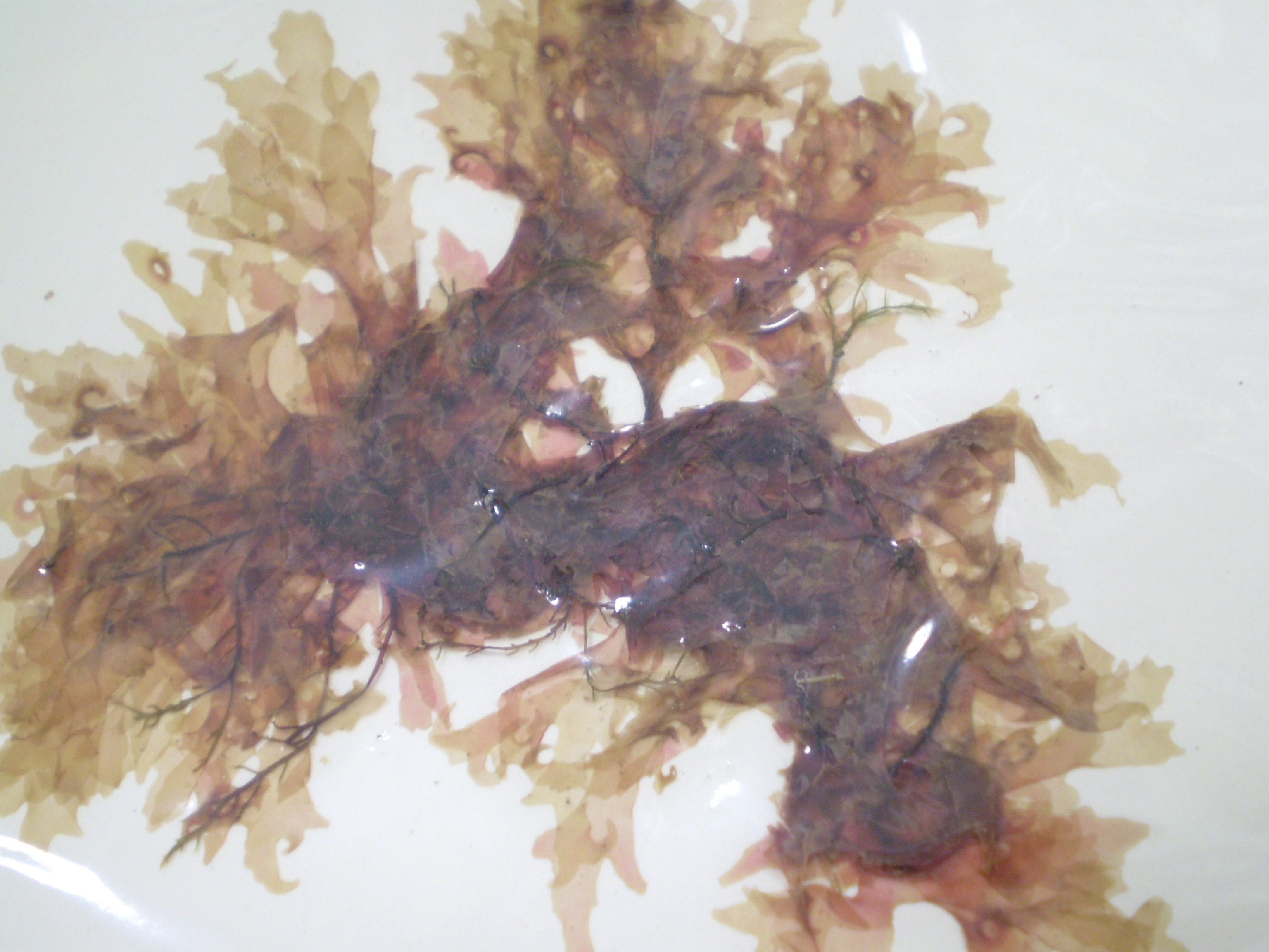 Specimen of Acrosorium uncinatum (Ceramiales, Delesseriaceae) = Cryptopleura ramosa